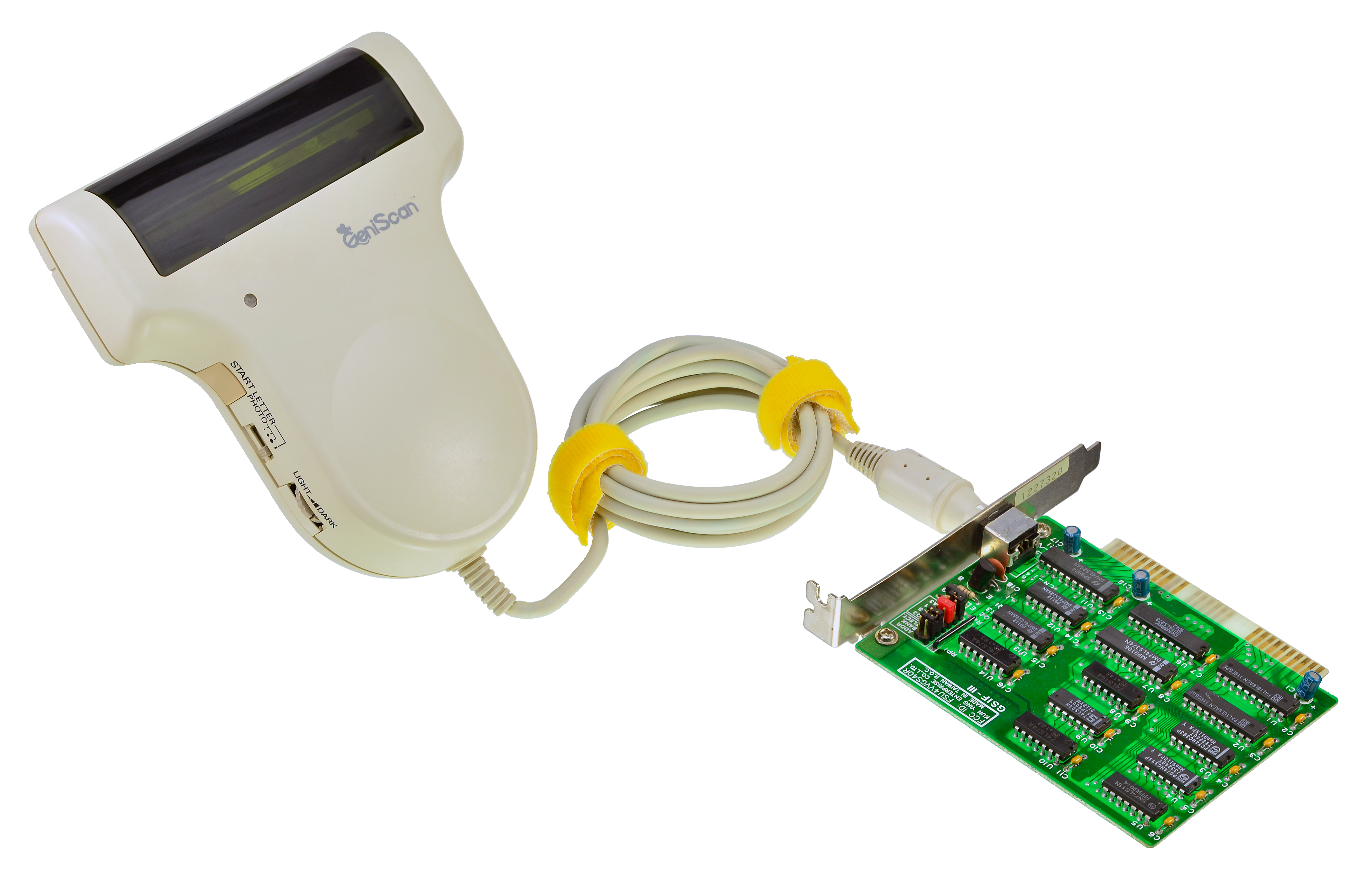 The Genius GeniScan GS-4500, manufactured by Omron in 1991, is a color hand scanner, shown here with its ISA interface board that would be installed on a PC.